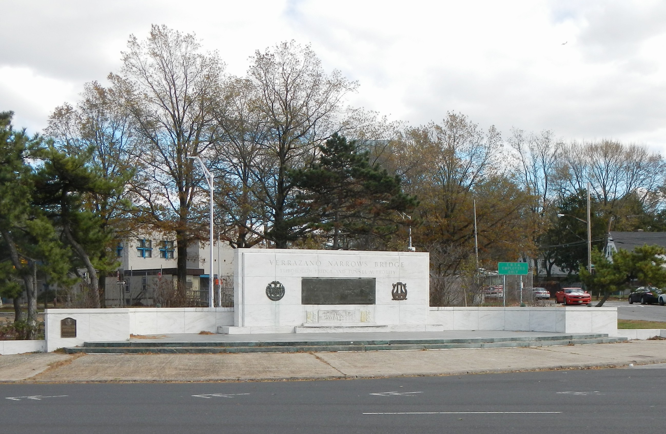 Looking east across Lily Pond Avenue at entrance monument on the north side of Major Avenue, which no longer has an entrance to the bridge.